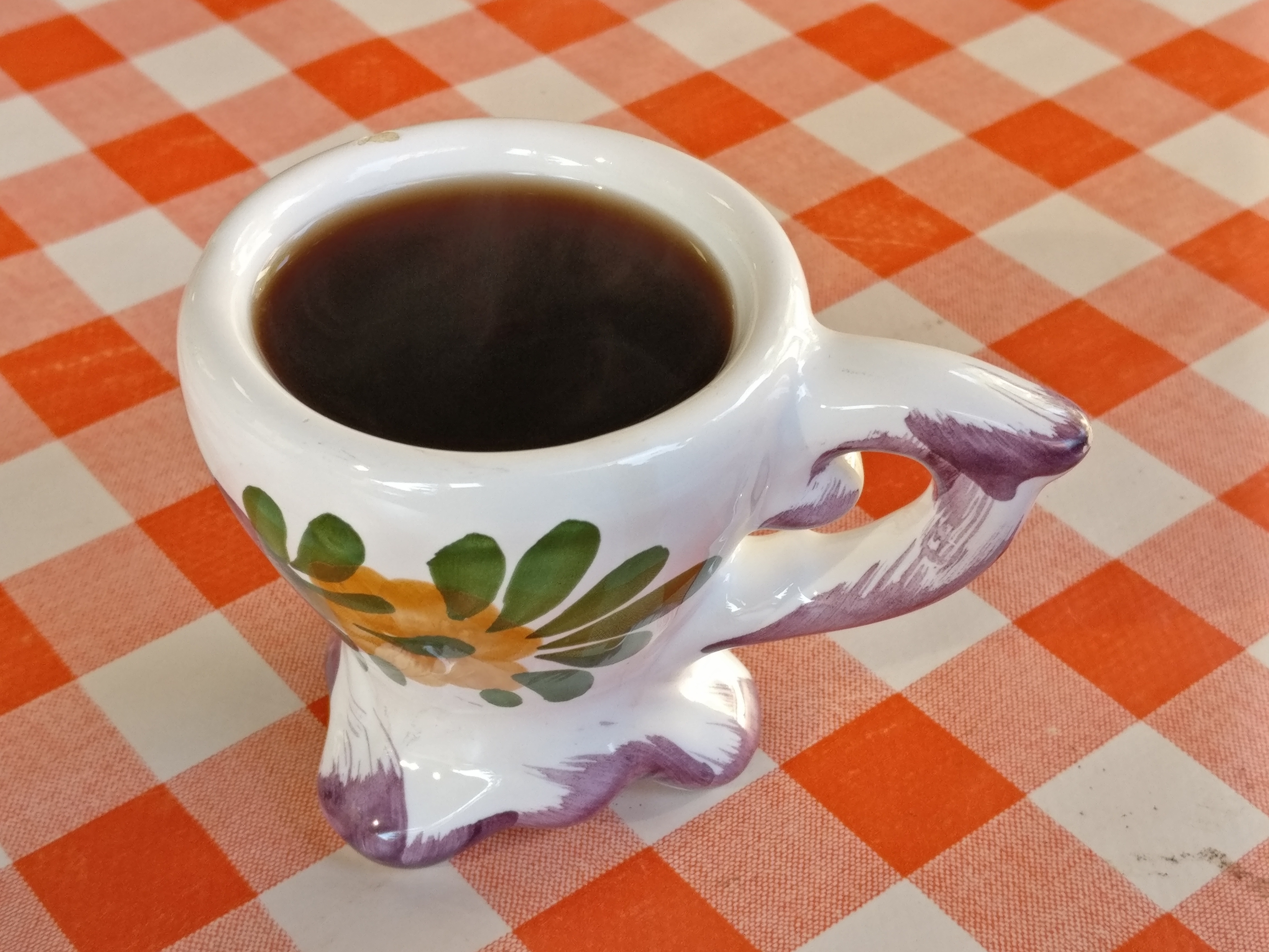 Parampampoli (typical alcoholic beverage of Trentino).